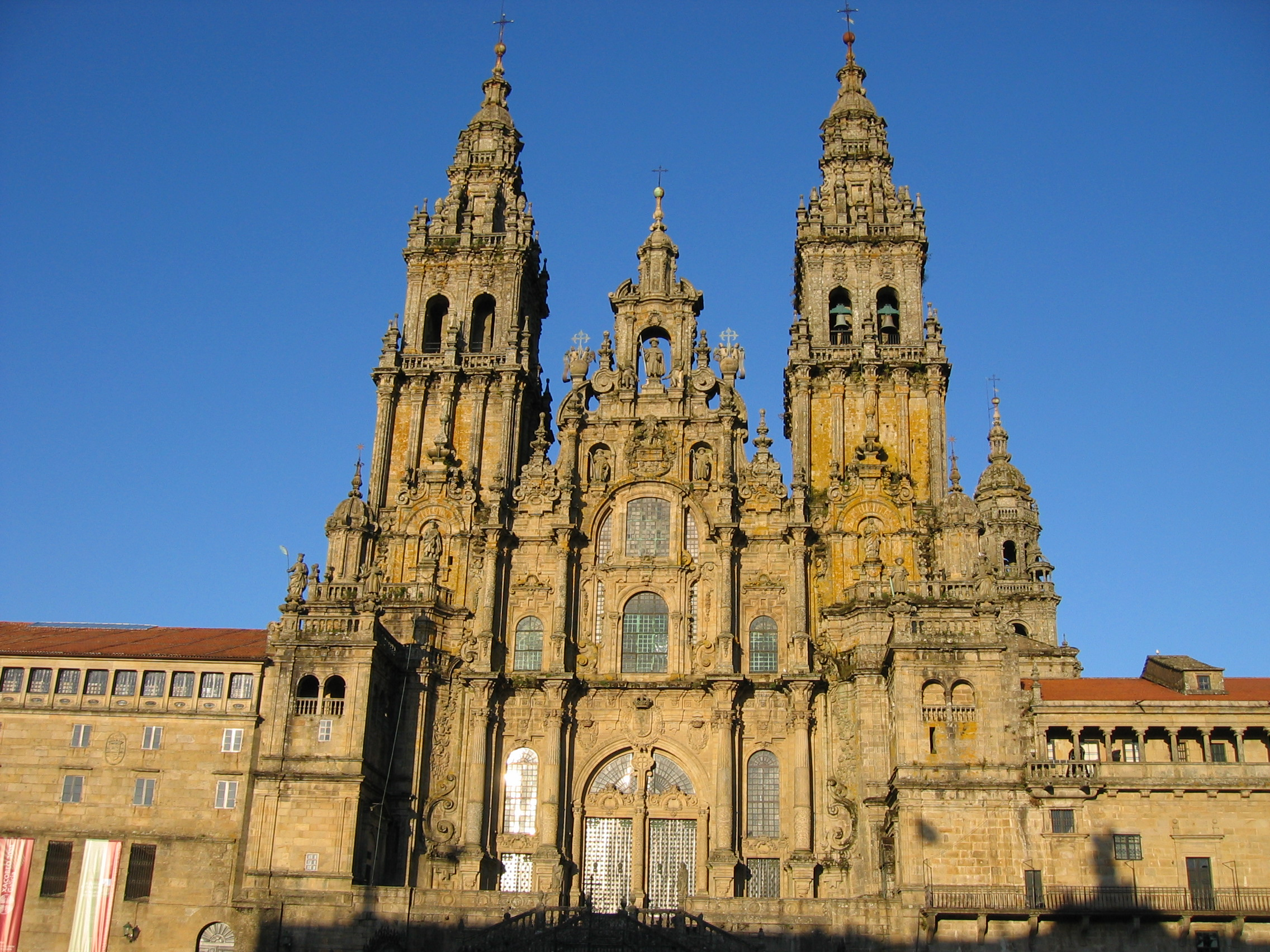 Cathedral in Santiago de Compostela